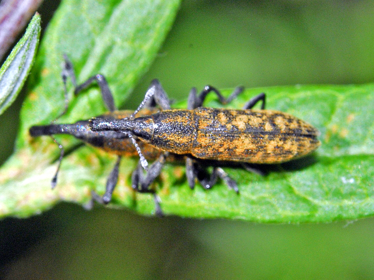 Lixus fasciculatus. Val Veny, Aosta, Italy